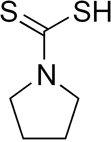 chemical structure of pyrrolidine dithiocarbamate (Pyrrolidinedithiocarbamate, PDTC)